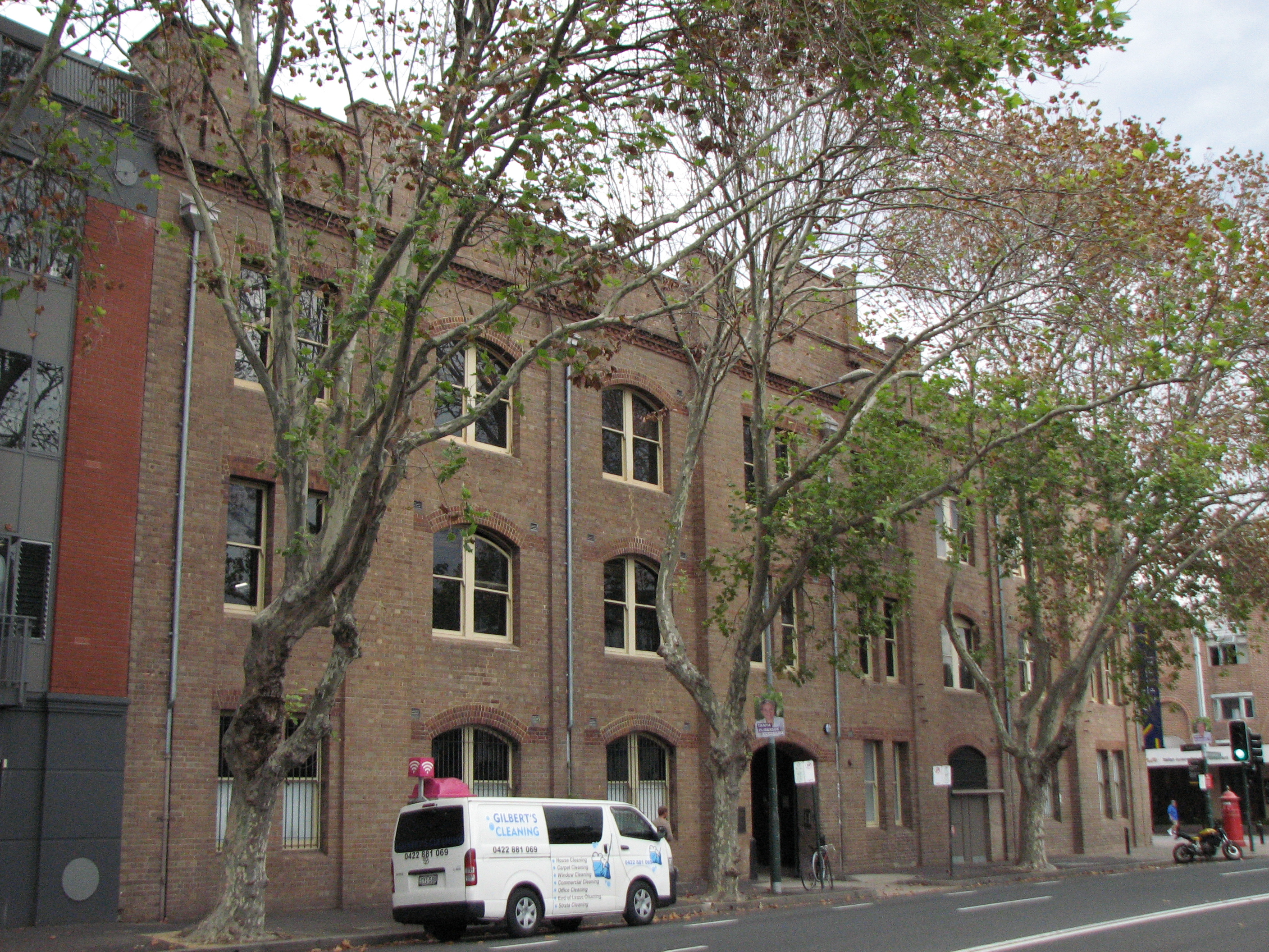 The Gunnery, 43-51 Cowper Wharf Road, Woolloomooloo is listed on the New South Wales State Heritage Register